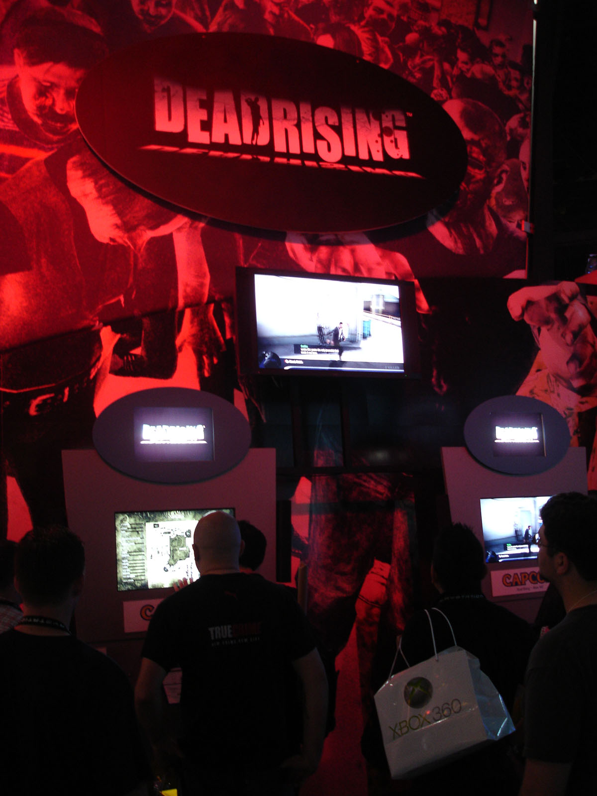 Taken on May 11, 2006 Dowtown Carrier Annex, Los Angeles, CA, US Sony DSC-P200